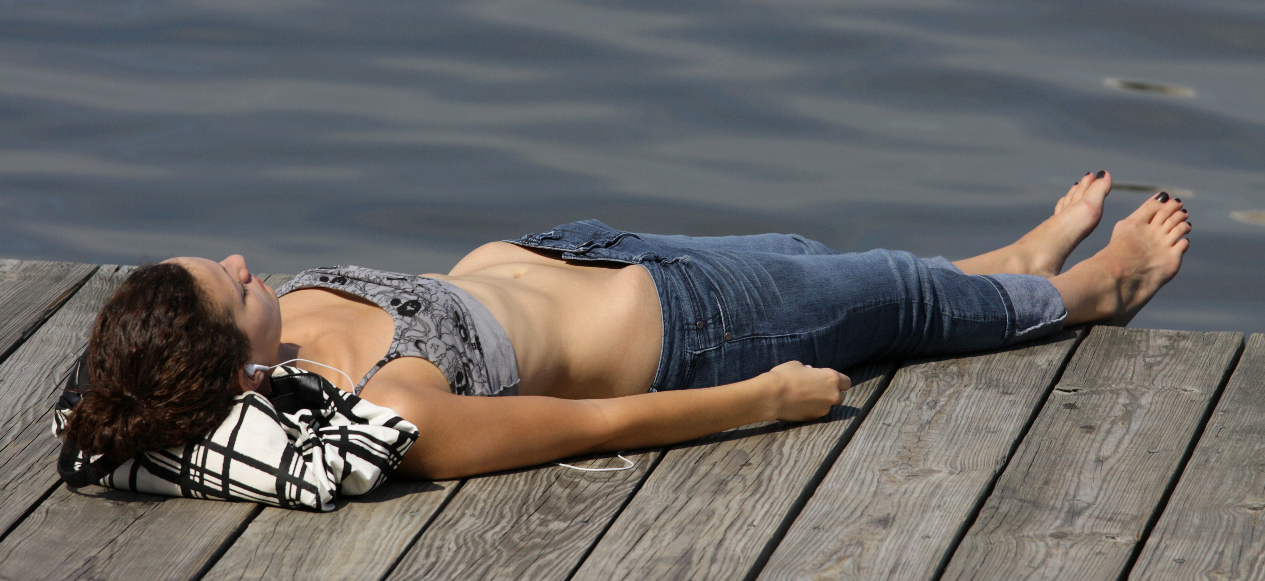 tanning woman in blue jeans lying on her back on a wooden dock next to a body of water